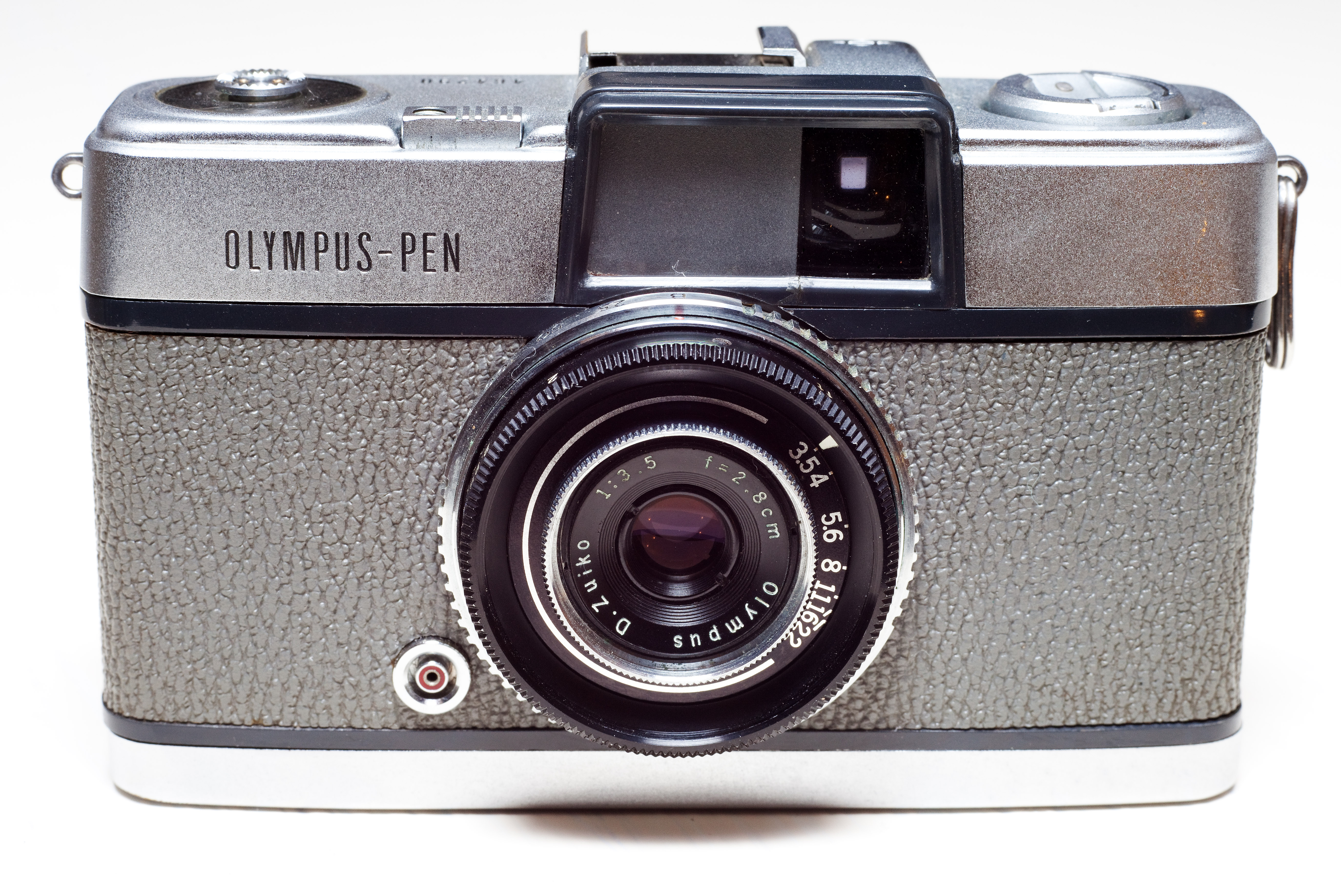 An original, 1959 model Olympus Pen half-frame compact 35mm camera.